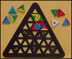 Picture of Spectrangle 36 in play